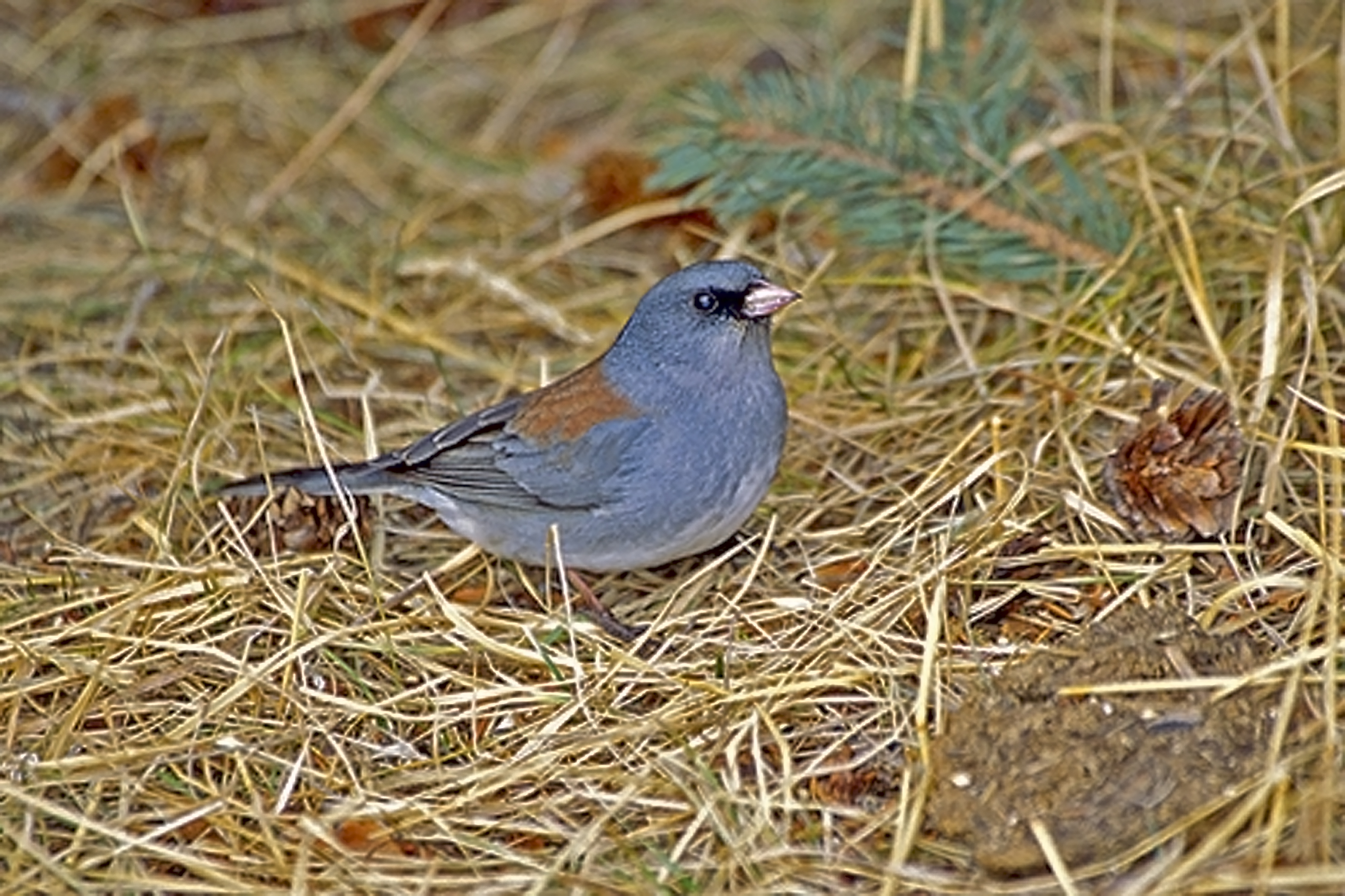 The Dark-eyed Junco can be found mostly above 8,000 feet in the Santa Fe Forest but it does find its way to my feeder at 7,300 feet in the developed foothills of Santa Fe at times.